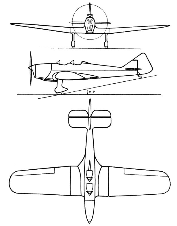 Miles Hawk 3-view drawing from L'Aerophile April 1937